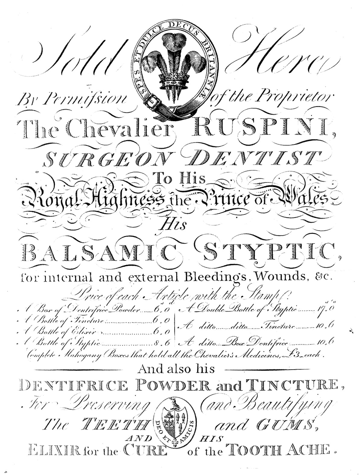 Advert for Ruspini's balsamic styptic Rare Books Keywords: Batholomew Ruspini